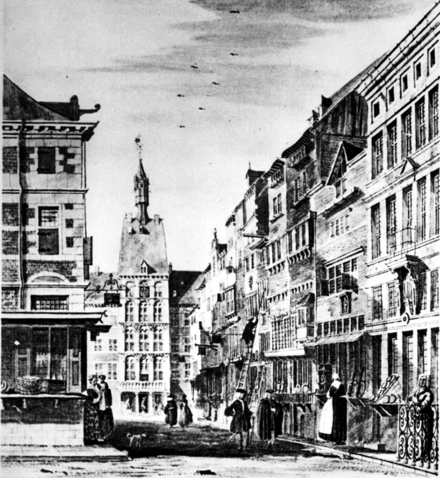 Maastricht, the Netherlands. View of Sint-Jorisstraat (now called Grote Staat) and late Medieval courthouse Dinghuis. Print by Jan de Beijer, ca 1750.